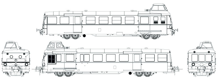 Railcar SNCF X 5800, Renault, 1953.